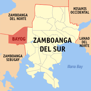 Map of Zamboanga del Sur showing the location of Bayog